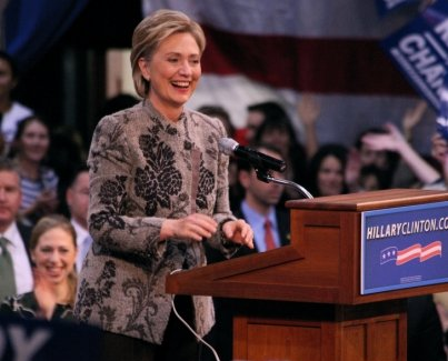 Hillary Clinton greets supporters after winning the 2008 New Hampshire Democratic Primary.